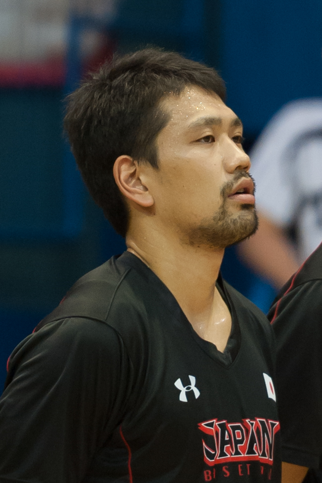 Basketball friendly Austria - Japan, 2015-08-08: Takatoshi Furukawa